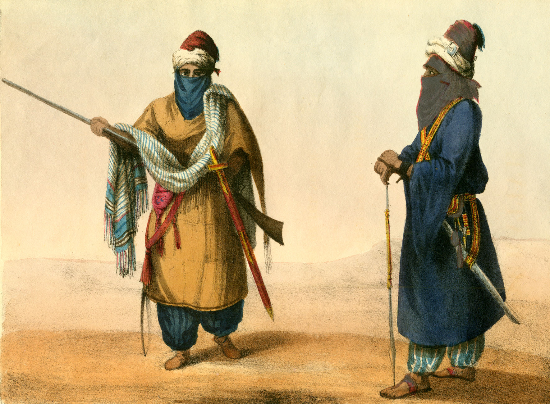 "Tuaricks of Ghraat" by Lyon